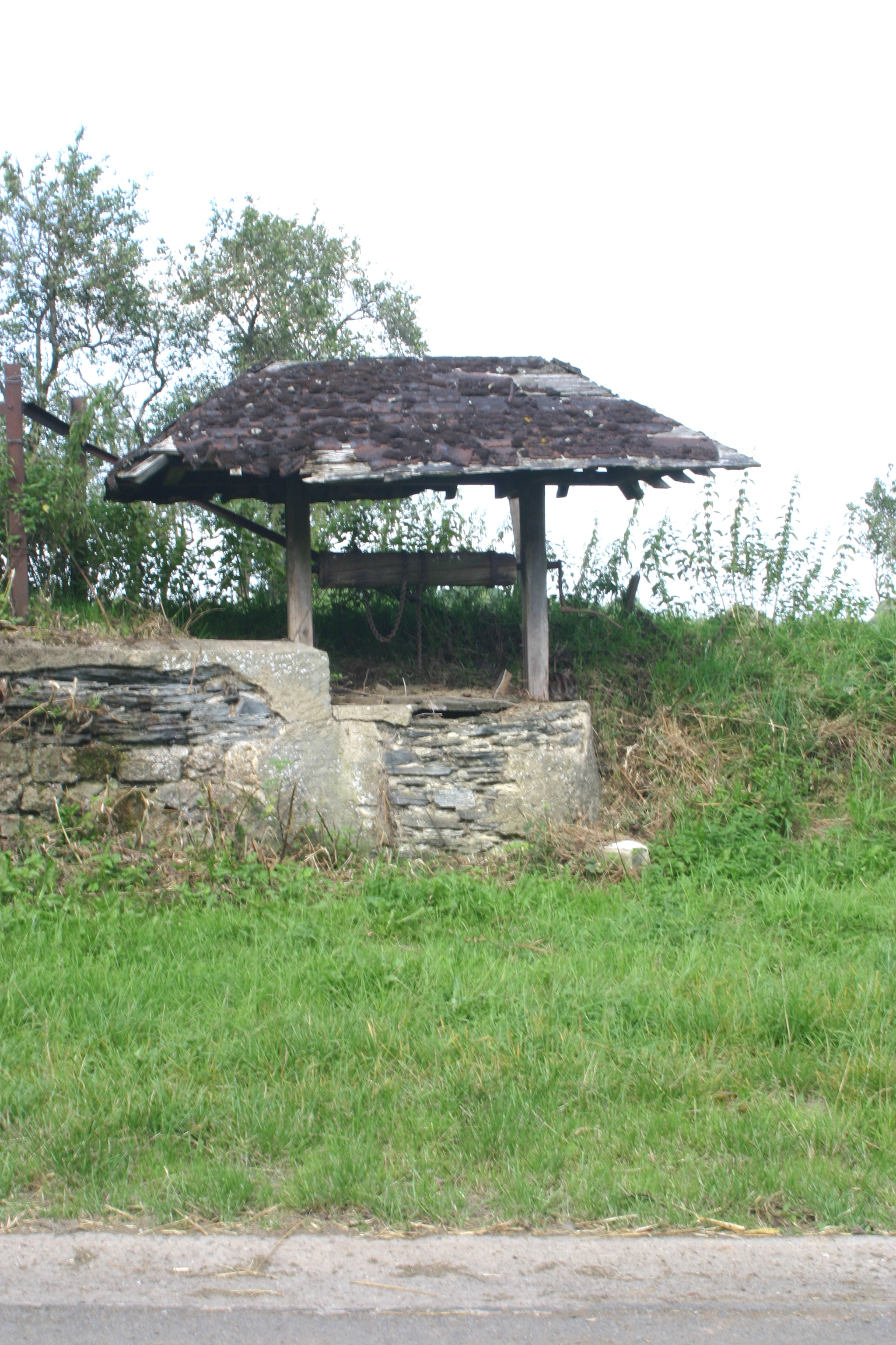 Schockville, Belgium: an old well.